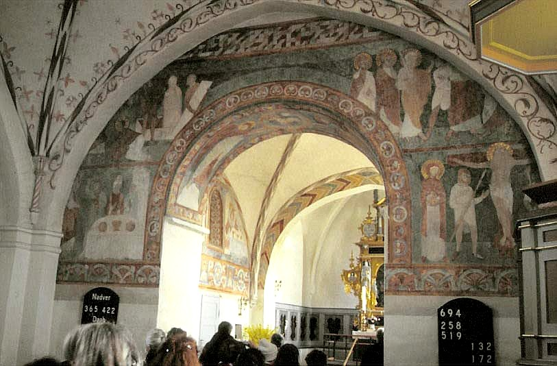 Jørlunde Kirke (church)